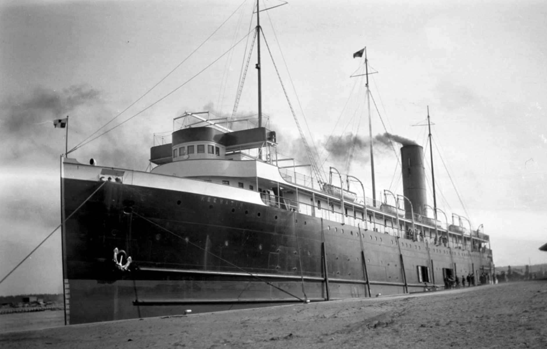 Photographer: Arthur Bloomfield Dawson Format: Nitrate Negative Reference no.: Arthur Bloomfield Dawson Nova Scotia Archives accession no. 1994-280 no. 164 Scan no.: 201004173 Caption: Ship